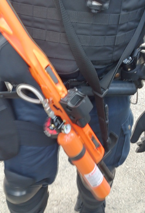 Finnish riot police with FN 303 riot gun in Tampere, May Day 2014.